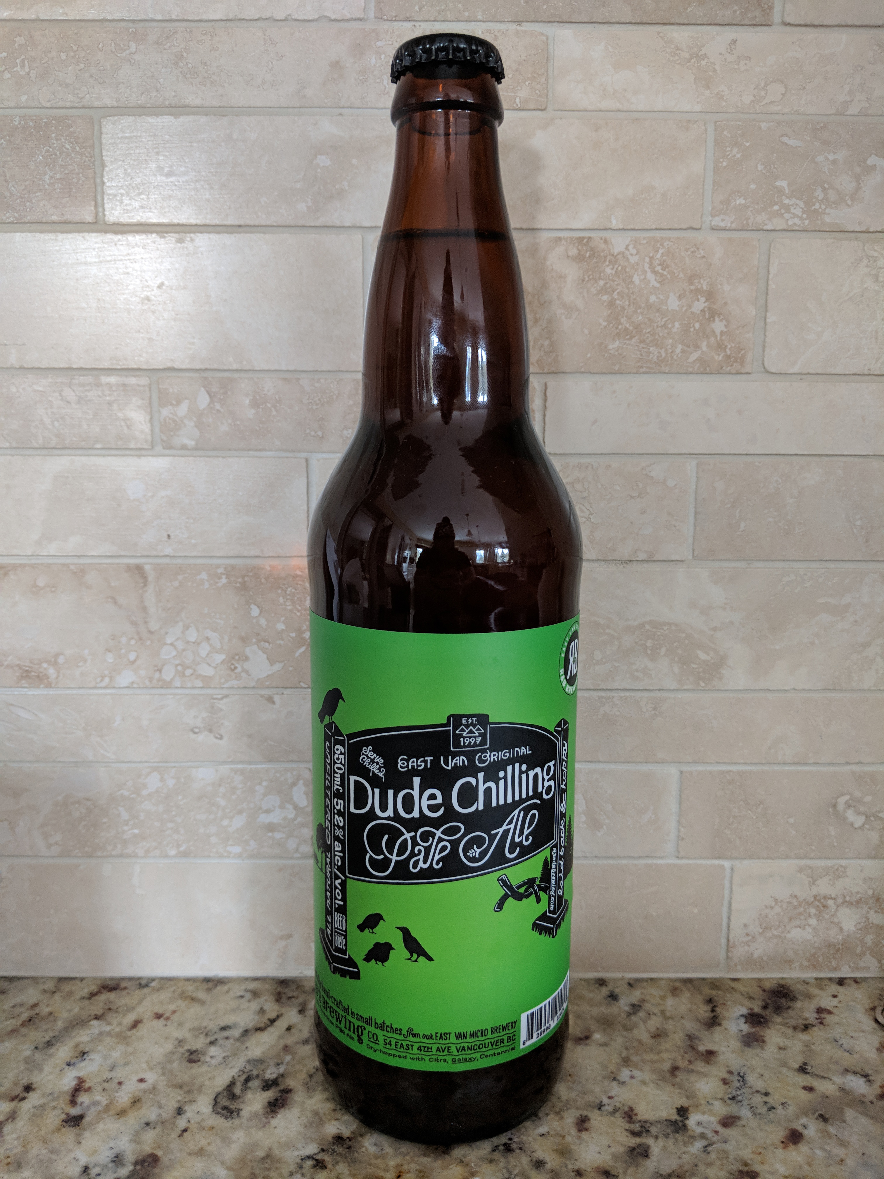 Dude Chilling Pale Ale brewed by the R & B Brewing Company. This beer is named in recognition of an art installation in Guelph Park in the Mount Pleasant neighbourhood of Vancouver, Canada.